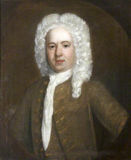 Gilbert Paige (c.1595-1647) of Barnstaple, Devon, merchant, twice Mayor of Barnstaple in 1629 and 1641. His Monument survives in St Peter's Church, Barnstaple. Portrait circa 1650 by unknown artist, oil on canvas, 73.5 x 61 cm, collection of Penrose Almshouses (Barnstaple Municipal Charities), Lichadon Street, Barnstaple, Devon. Provenance: donated by John Gould King.